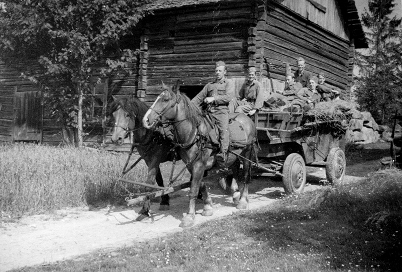 Swedish military conscription (circa 1918-20). Yabosids grandfather is the man to the left, laying on the wagon.